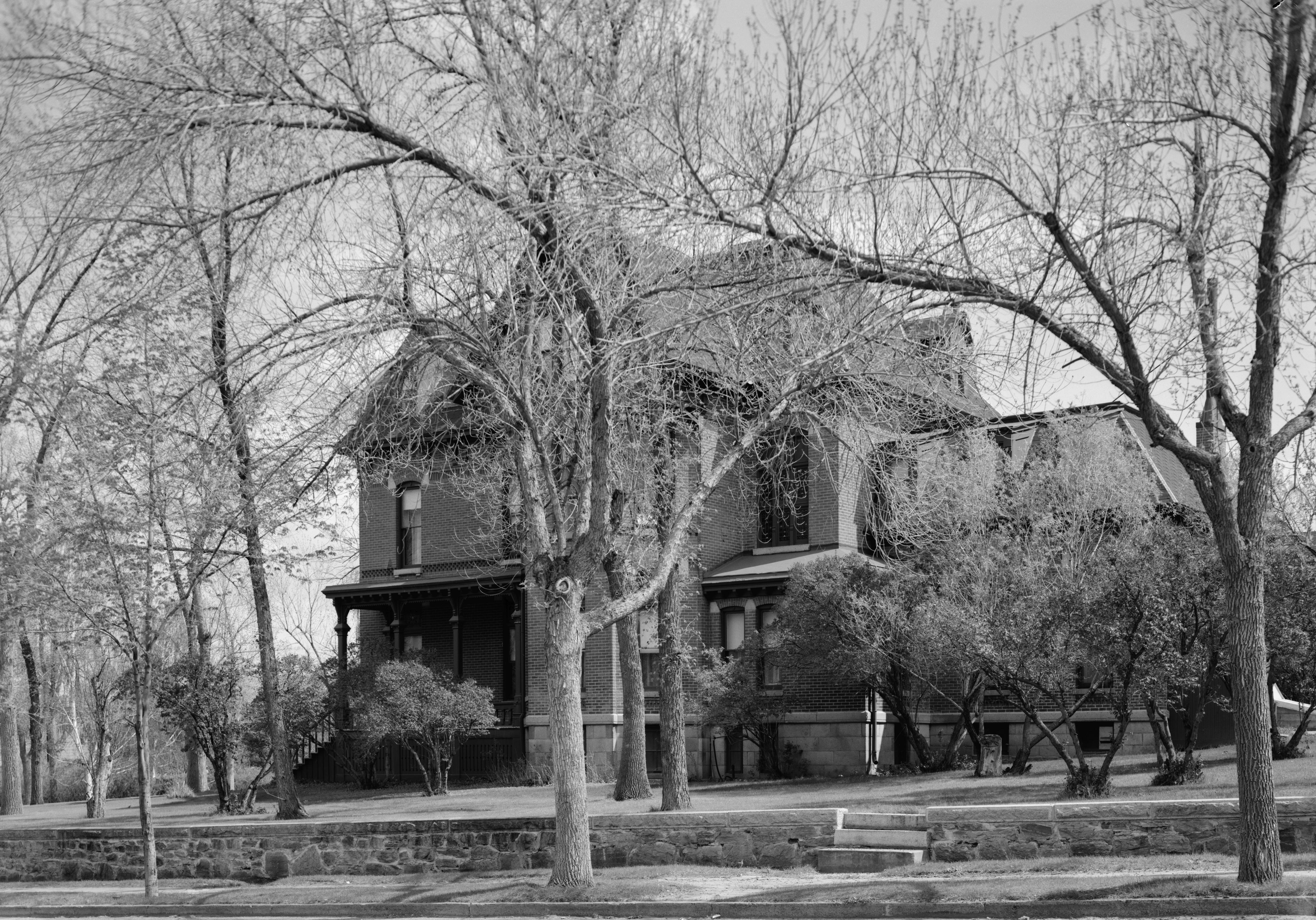 Streetside view of the Hauser Mansion, located at 720 Madison Avenue in Helena, Montana, United States. Built in 1885, the house is listed on the National Register of Historic Places.